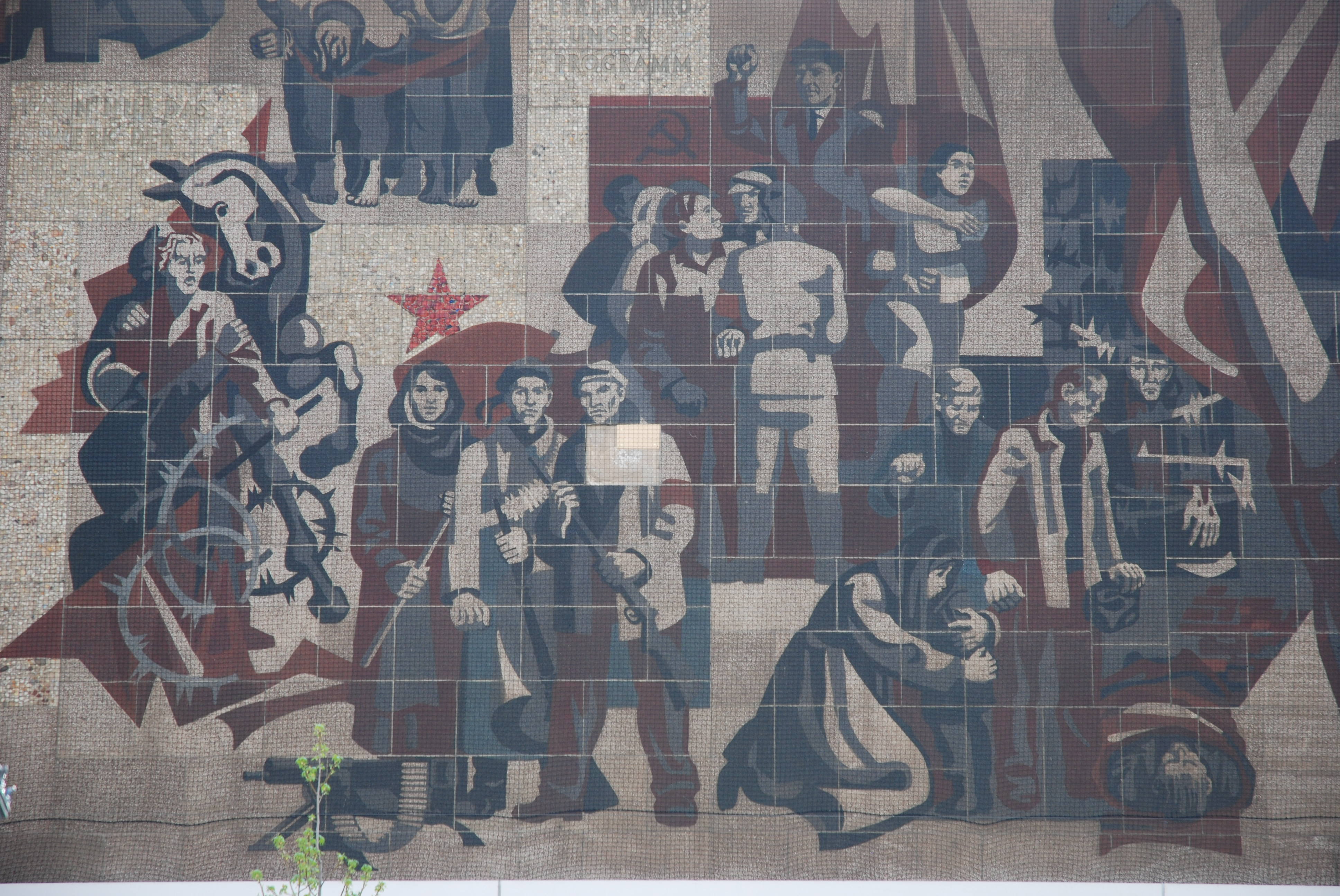 Detail of Gerhard Bondzin' s "Der Weg der roten Fahne, Kulturpalast Dresden